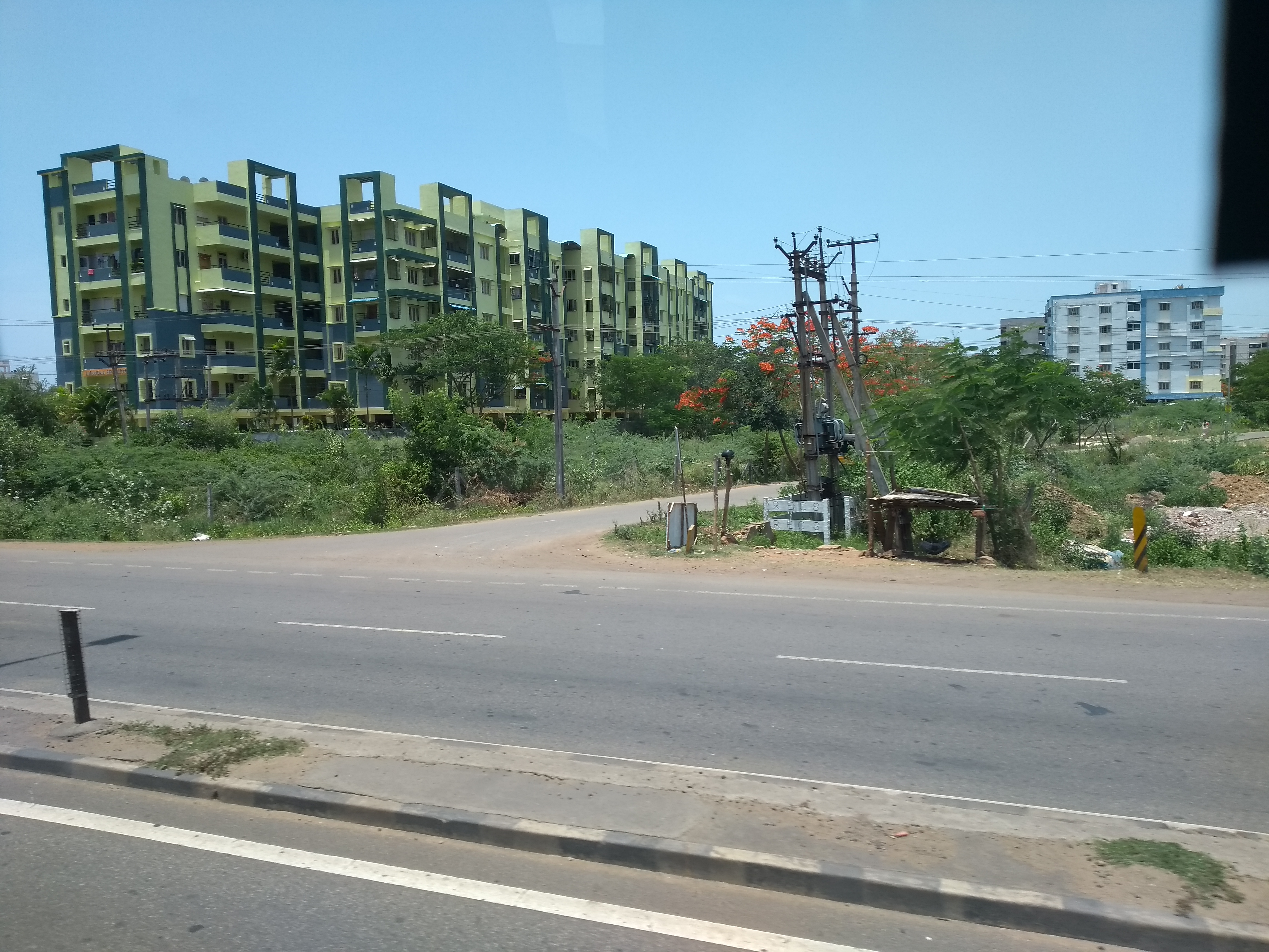 Aganampudi2